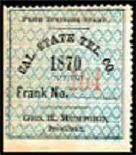 The United States 1870 Sc 5T1 California State Telegraph Company stamp